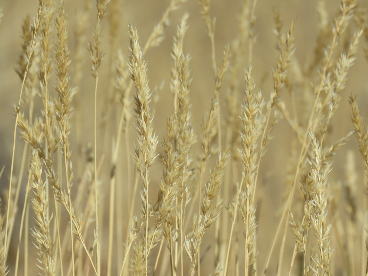 Closeup of Centropodia glauca in the Kalahari in August